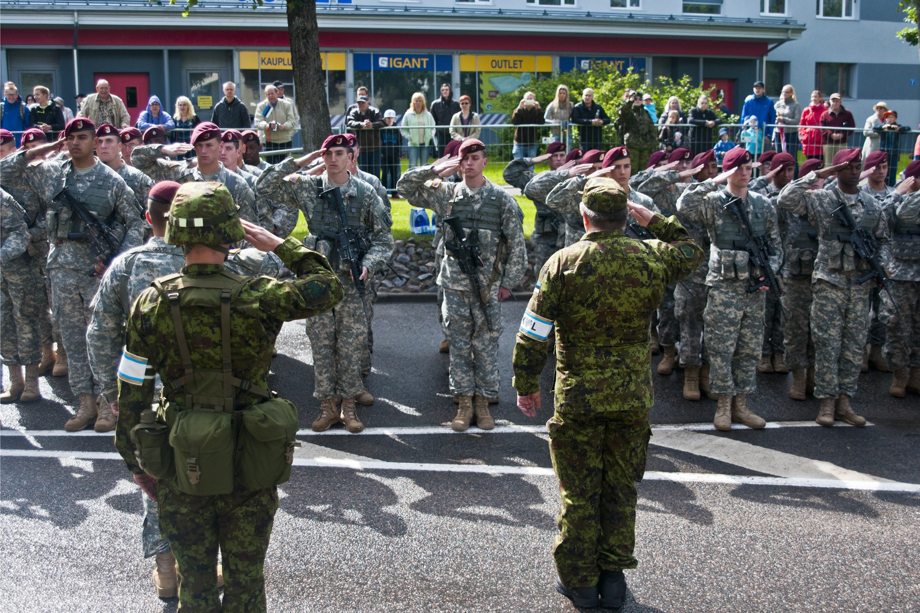 Estonian Brig. Gen. Meelis Kiili salutes U.S. Army paratroopers from 1st Squadron, 91st Cavalry Regiment, 173rd Airborne Brigade, during the Estonian Victory Day parade that began in Valga, Estonia, and ended in Valka, Latvia.